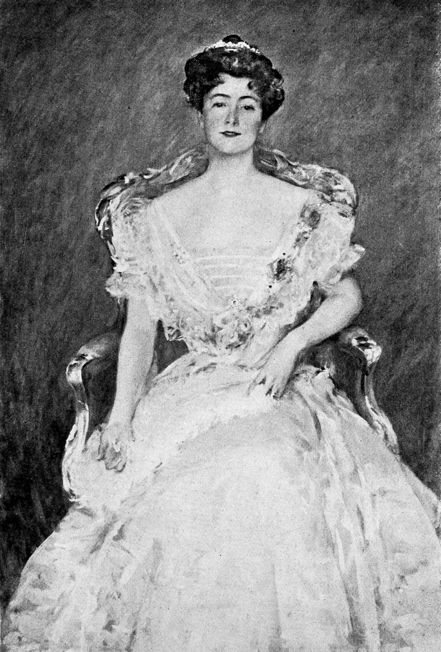 Portrait of Caroline Furness Jayne by William Merritt Chase in Catalogue of the 102nd Annual Exhibition &c. (Pennsylvania Academy of the Fine Arts), 1907.